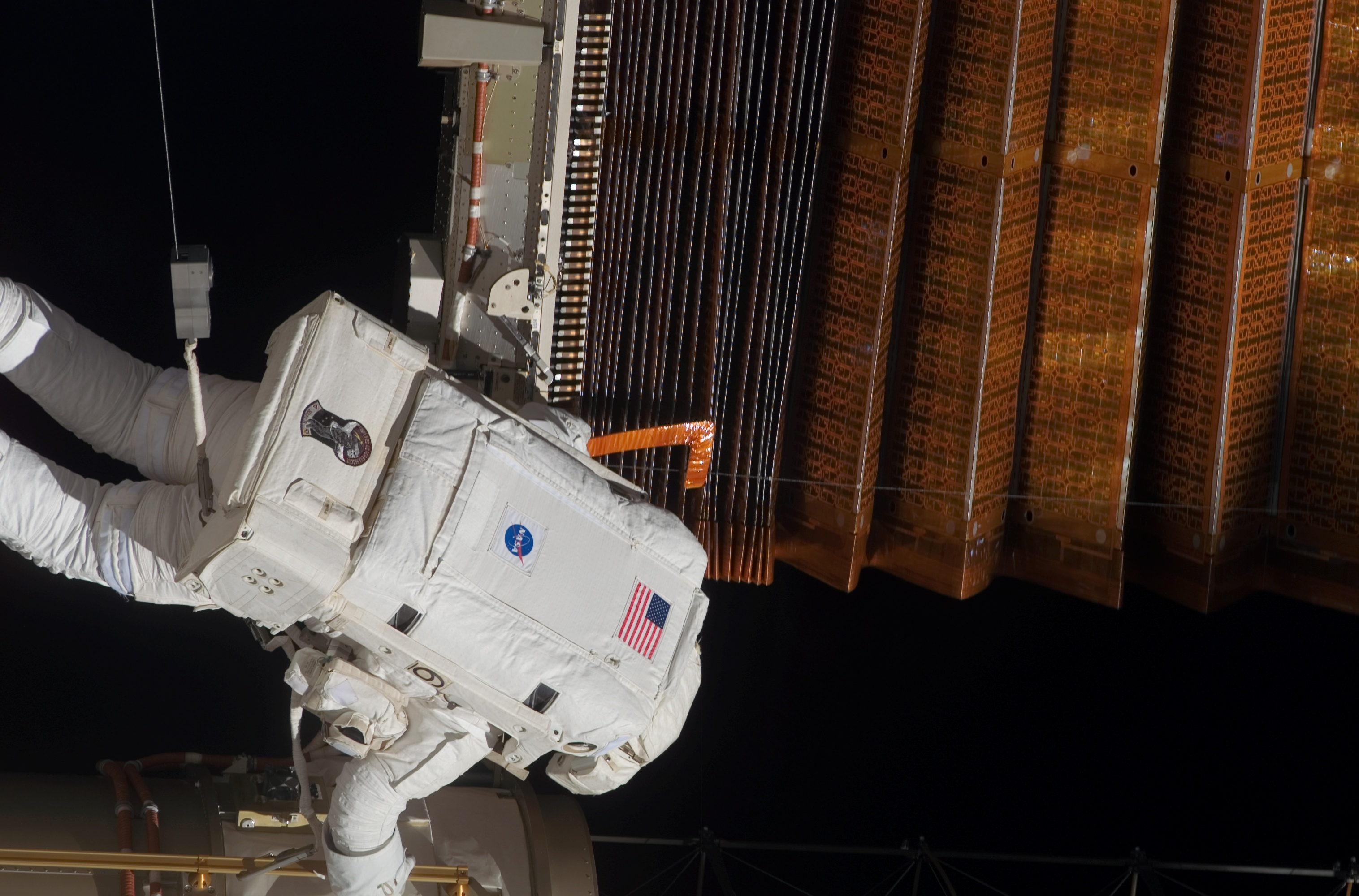 Astronaut Danny Olivas uses a homemade "hockey stick" tool to fluff a solar array panel during the third spacewalk of the STS-117 mission.